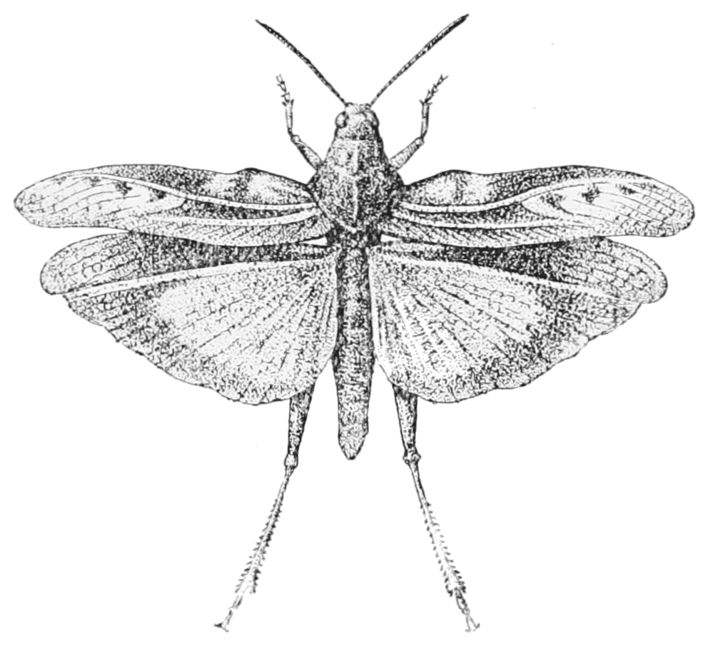 Coral winged locust in flight